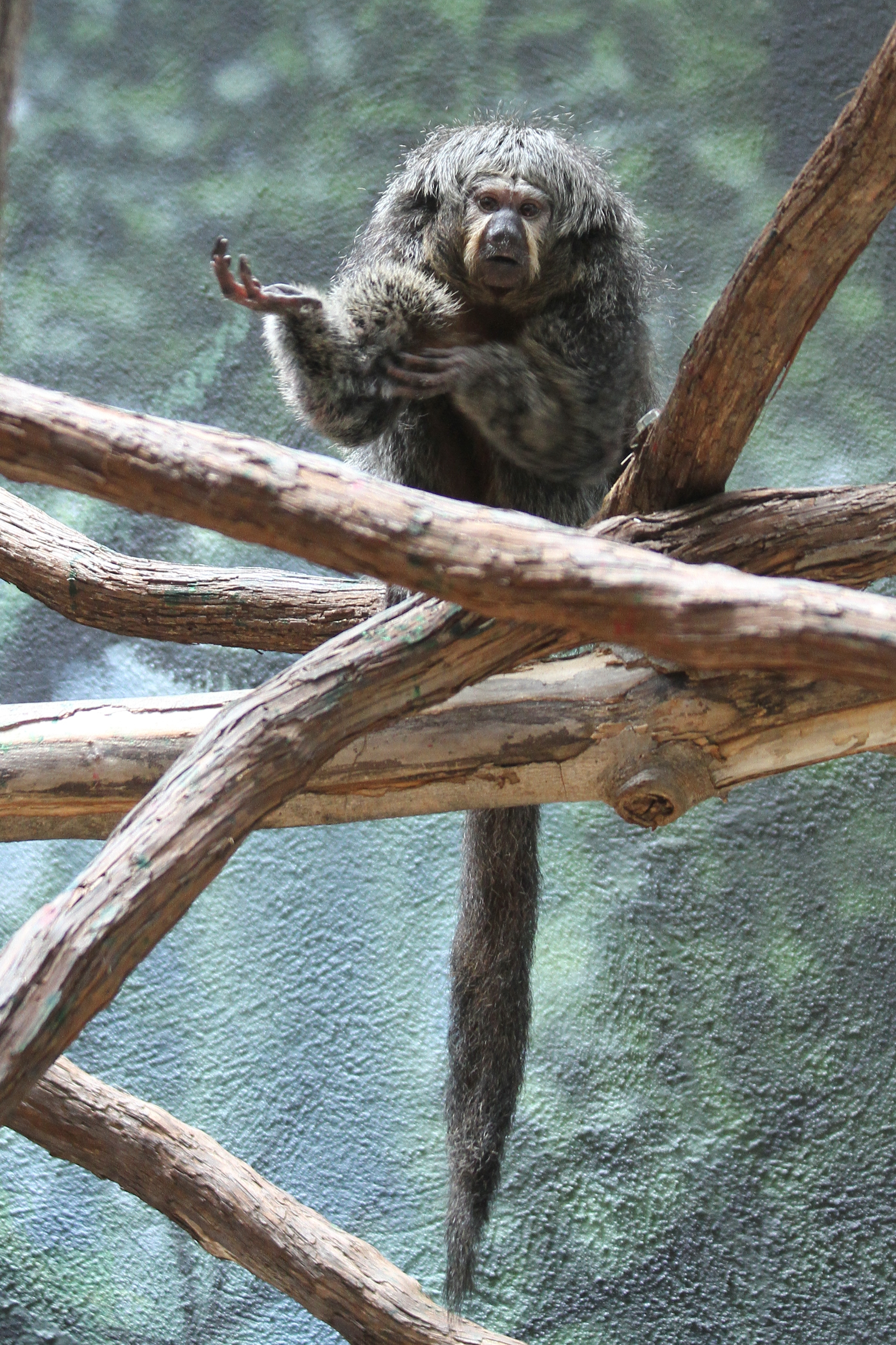 A female of white faced saki (Pithecia pithecia) in Philadelphia Zoo.